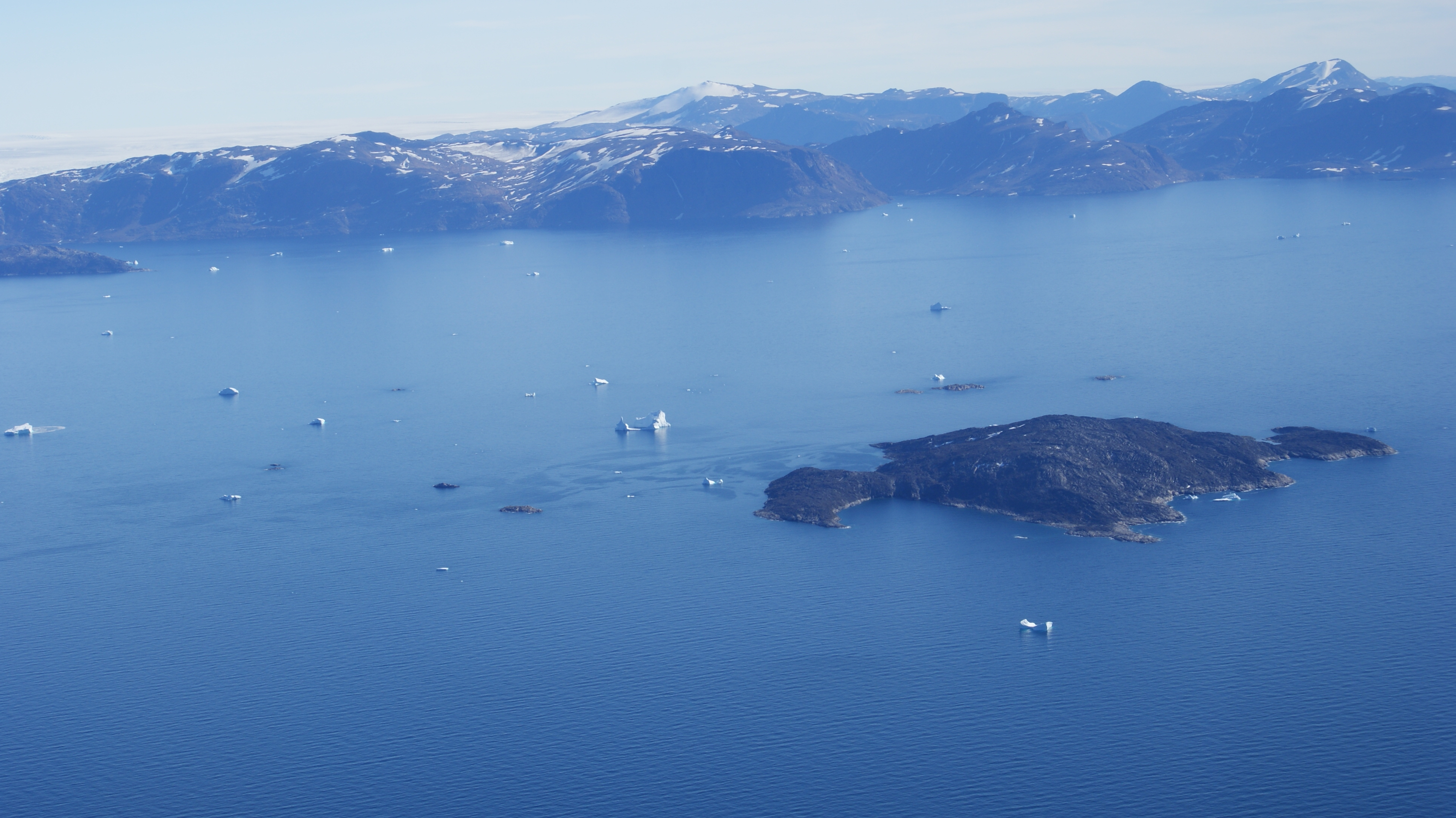 Aerial view of southern Inussulik Bay, Upernavik Archipelago, Greenland. Photographed from the Air Greenland Bell 212 during the Kullorsuaq-Nuussuaq flight. Ikermiut island on the first plane, Nuussuaq Peninsula on the horizon.